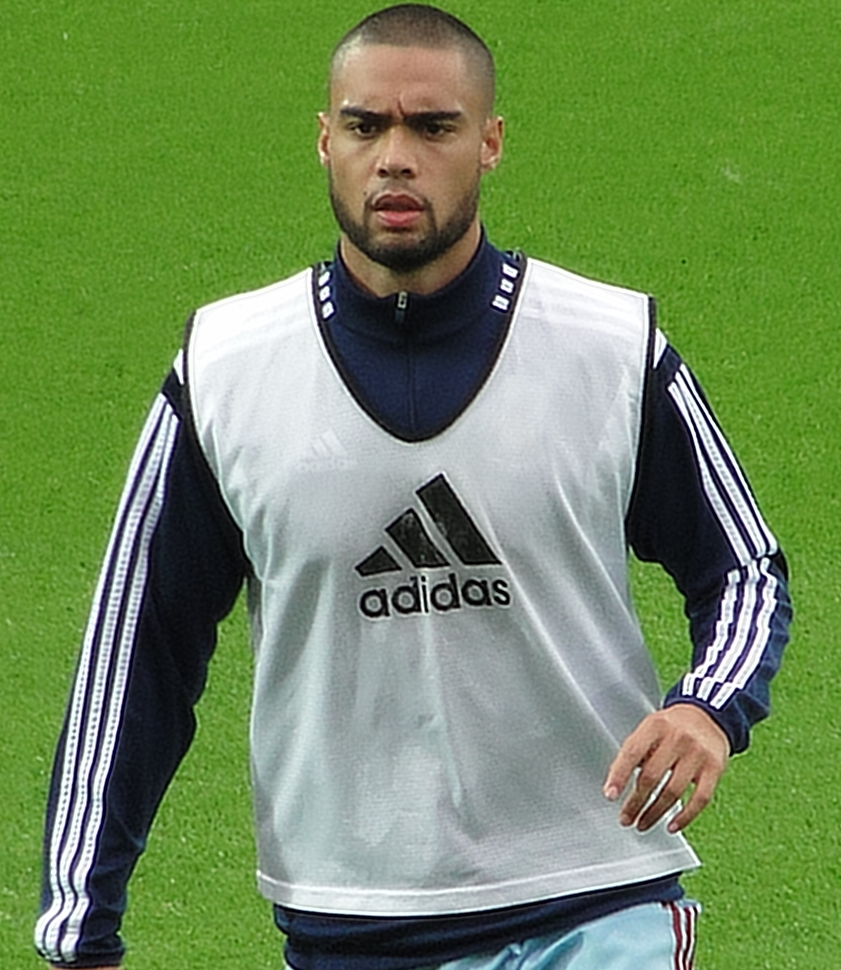 West Ham United player warming up before their win against Liverpool at the Boleyn Ground, London in September 2014